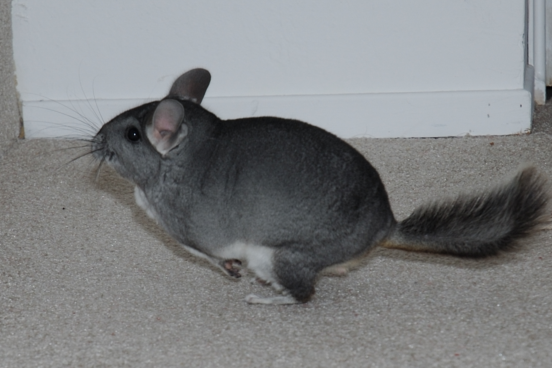 A pet long-tailed chinchilla